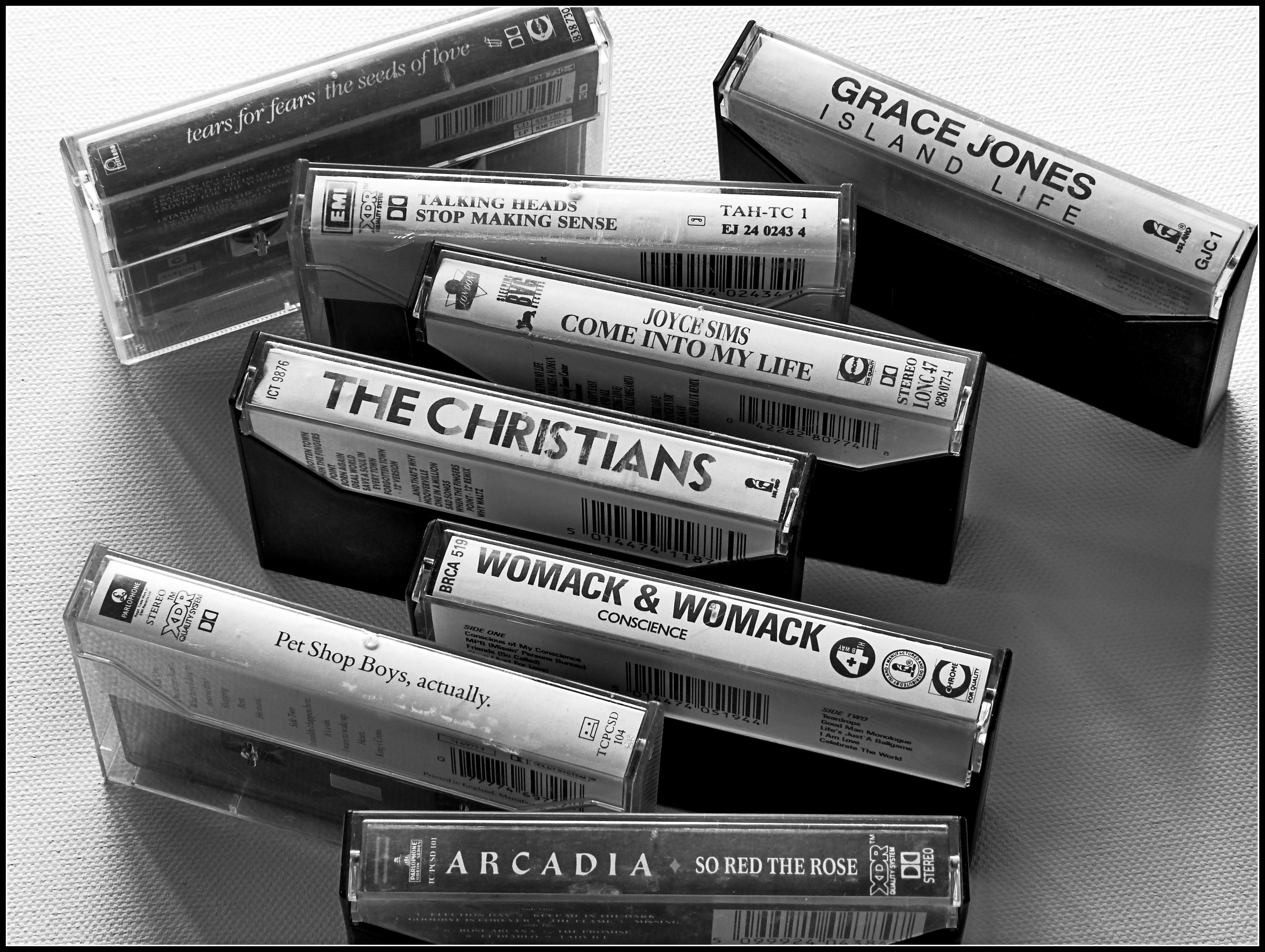 Very 1980's